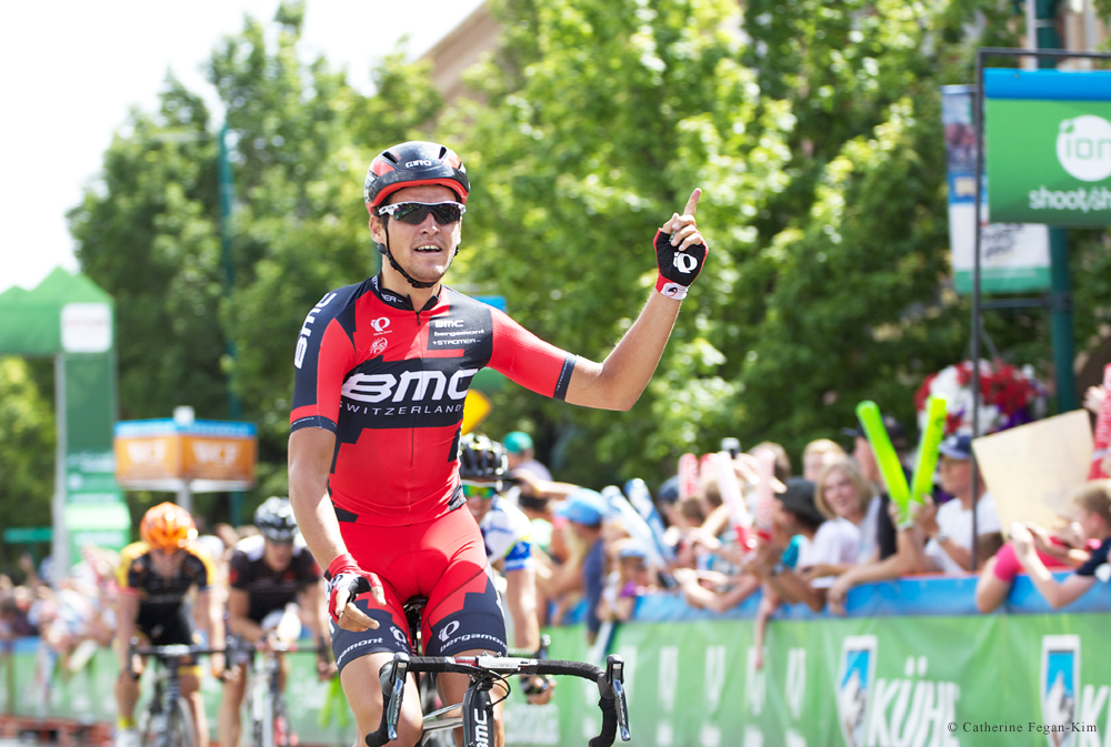 Greg Van Avermaet, winner of the 1st stage of Tour of Utah 2013